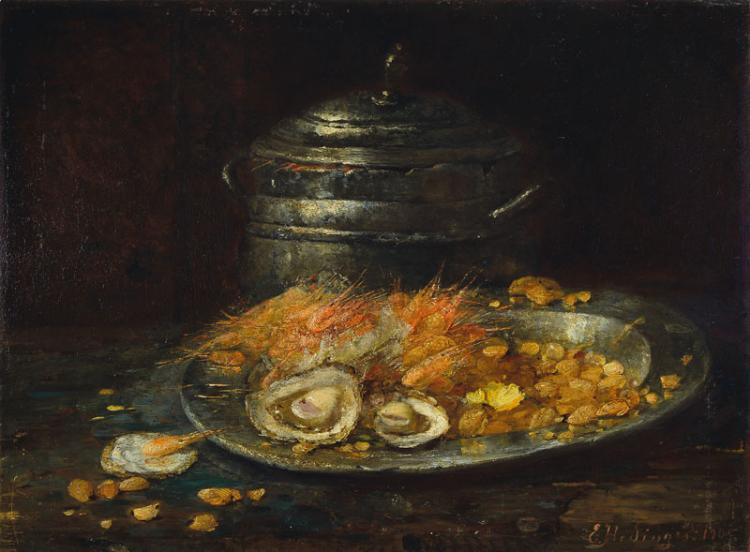 Elise Hedinger Neumann - still life with shrimps, oysters, shells and silver bowl